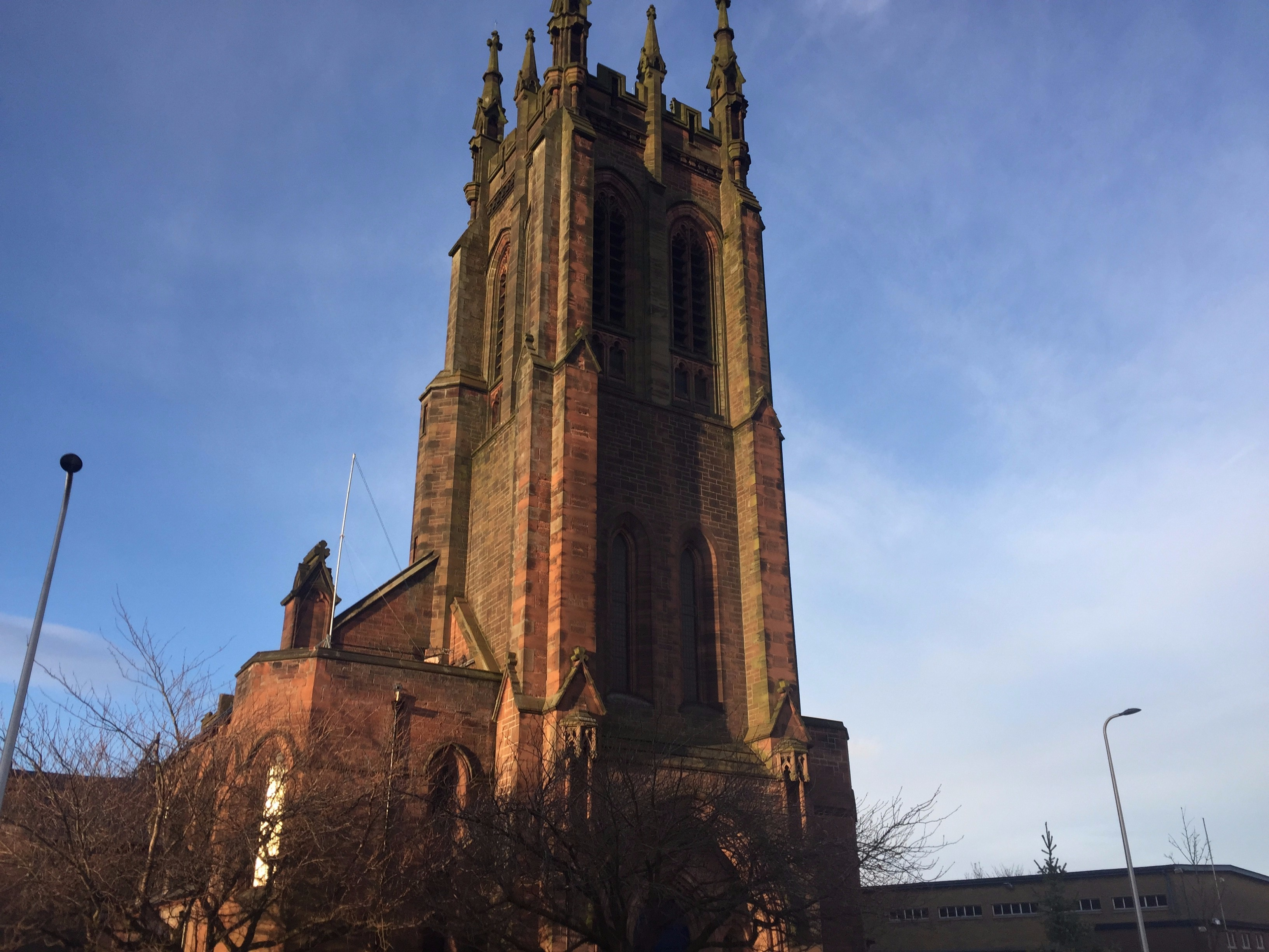 St. Mary's Church at Cowgate, Kirkintilloch.